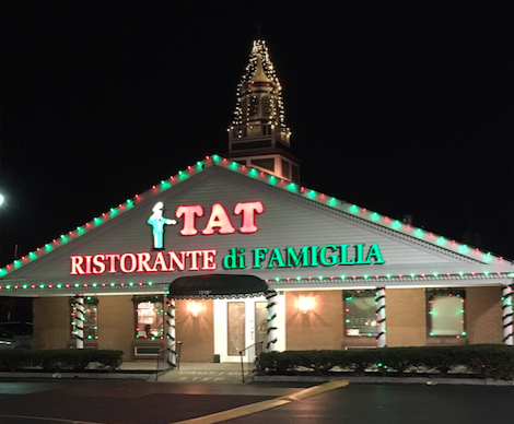 Tat Ristorante di Famiglia